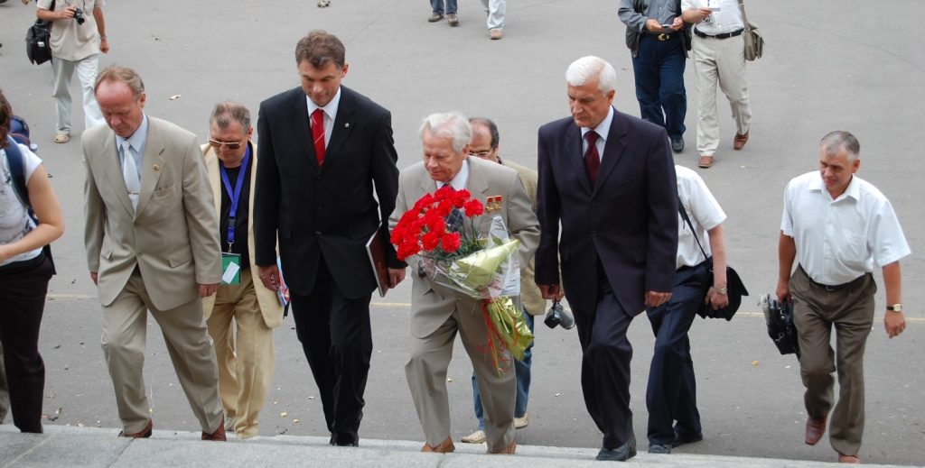 Mikhail Kalashnikov in Army Museum, Moscow, Russia (2007)